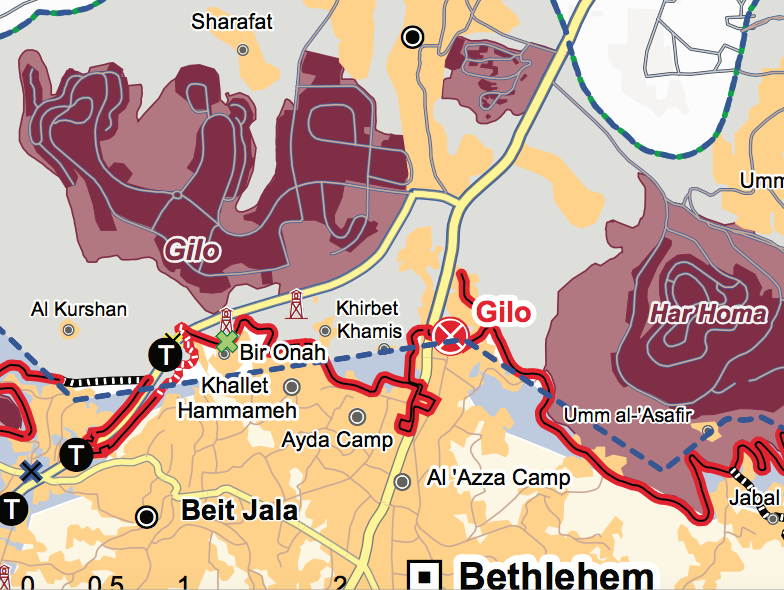 Location of Rachel's tomb